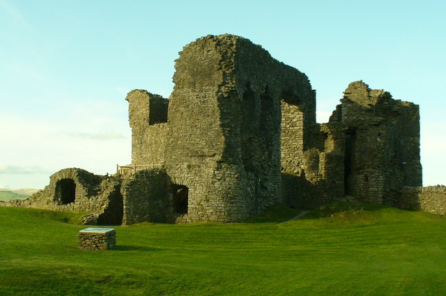 Kendal Castle